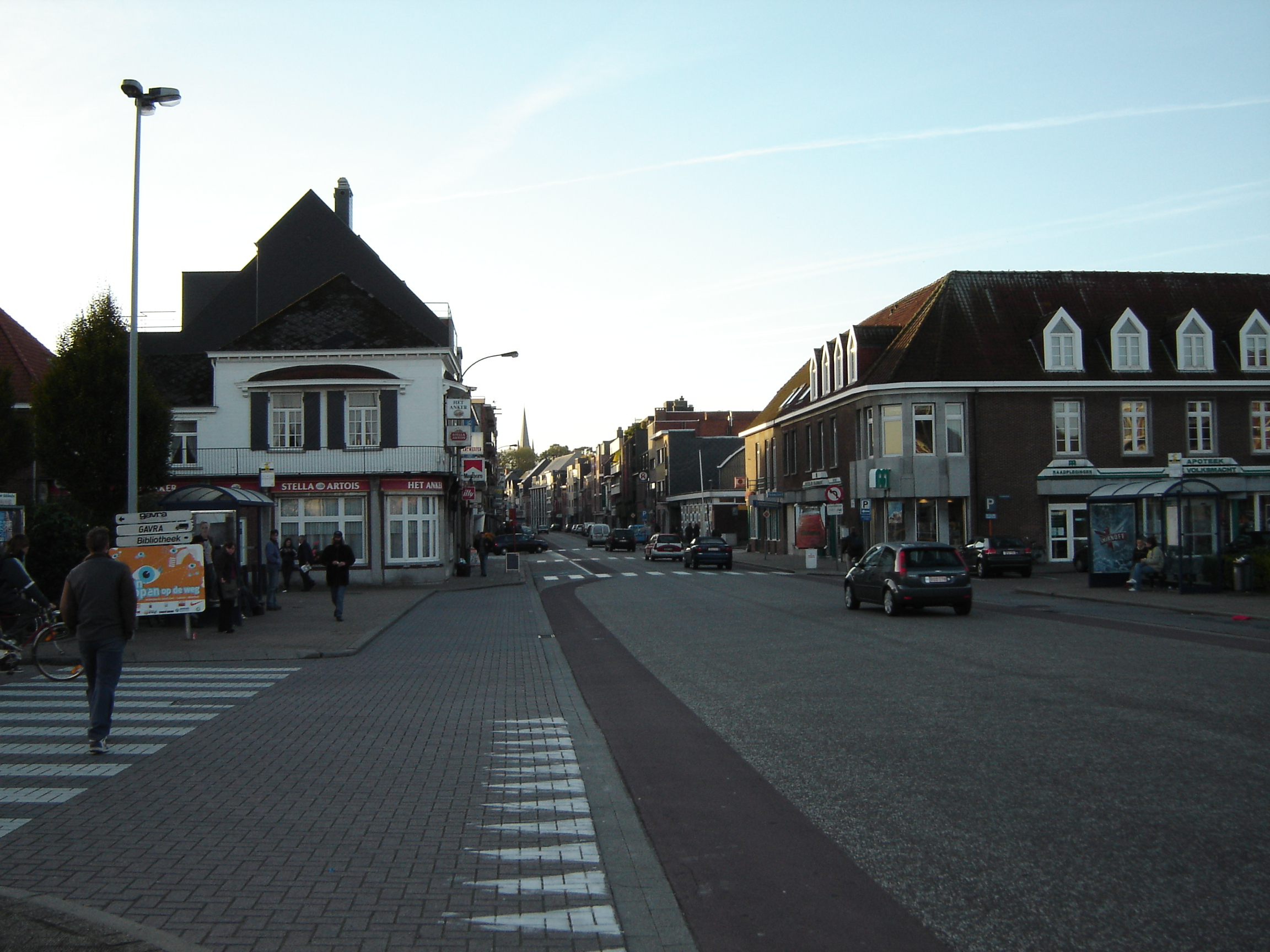 Streets of Geel, Belgium taken on October 22, 2004.